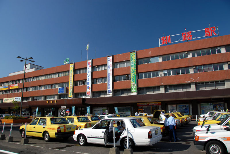 Kushiro Station